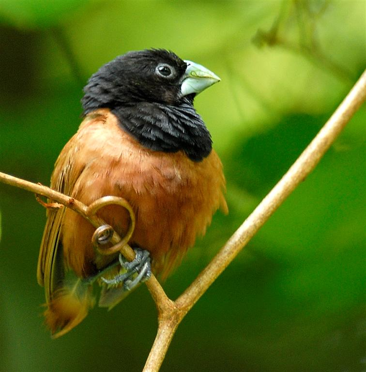 Adult Black-headed Munia